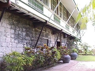 Montilla anscestral house